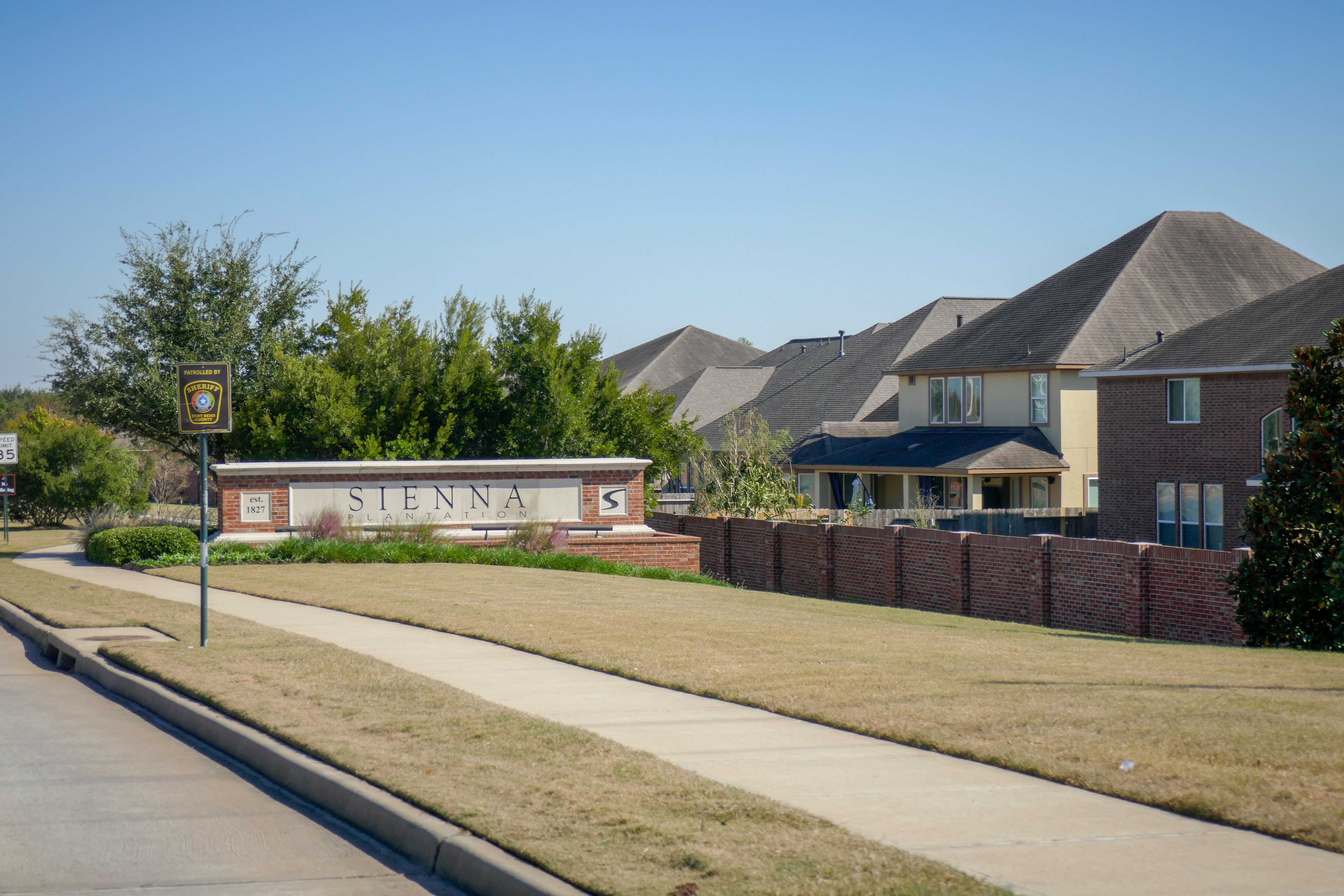 Entrance sign for Sienna Plantation, Texas.